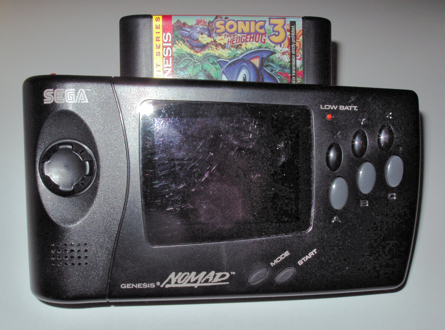 A Sega Genesis Nomad with a Sonic the Hedgehog 3 (Mega Hit Series edition) cartridge inserted.